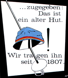 Icon des Corps Lusatia / Icon of the Corps Lusatia